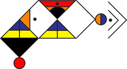 "Ditema tsa Dinoko" written in the writing system of that name.